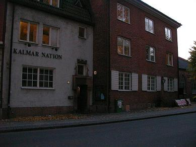 Kalmar Nation, Lund, club is in the basement.